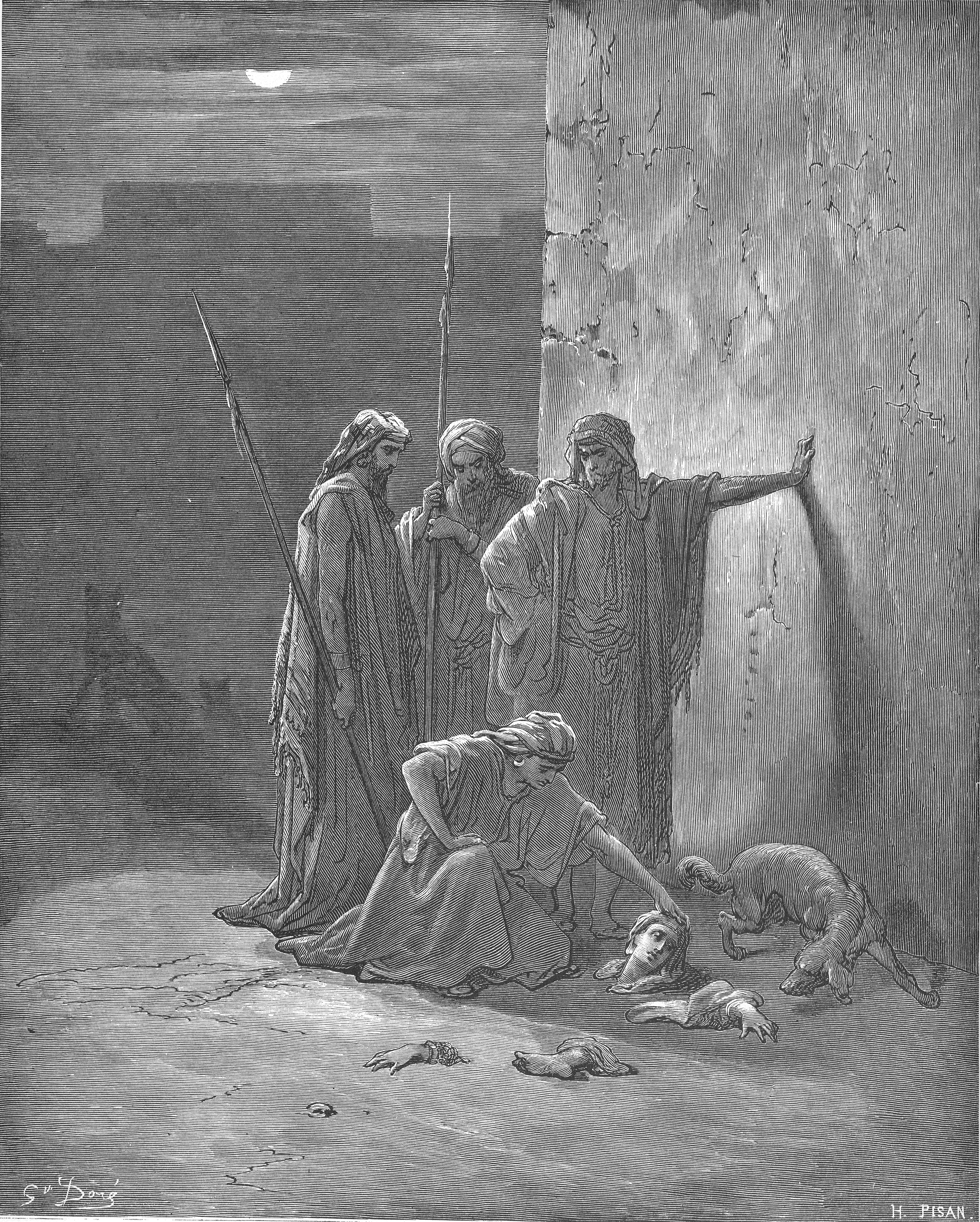 Jehu's Companions Find Jezebel's Remains (2Kings 9:34-37)